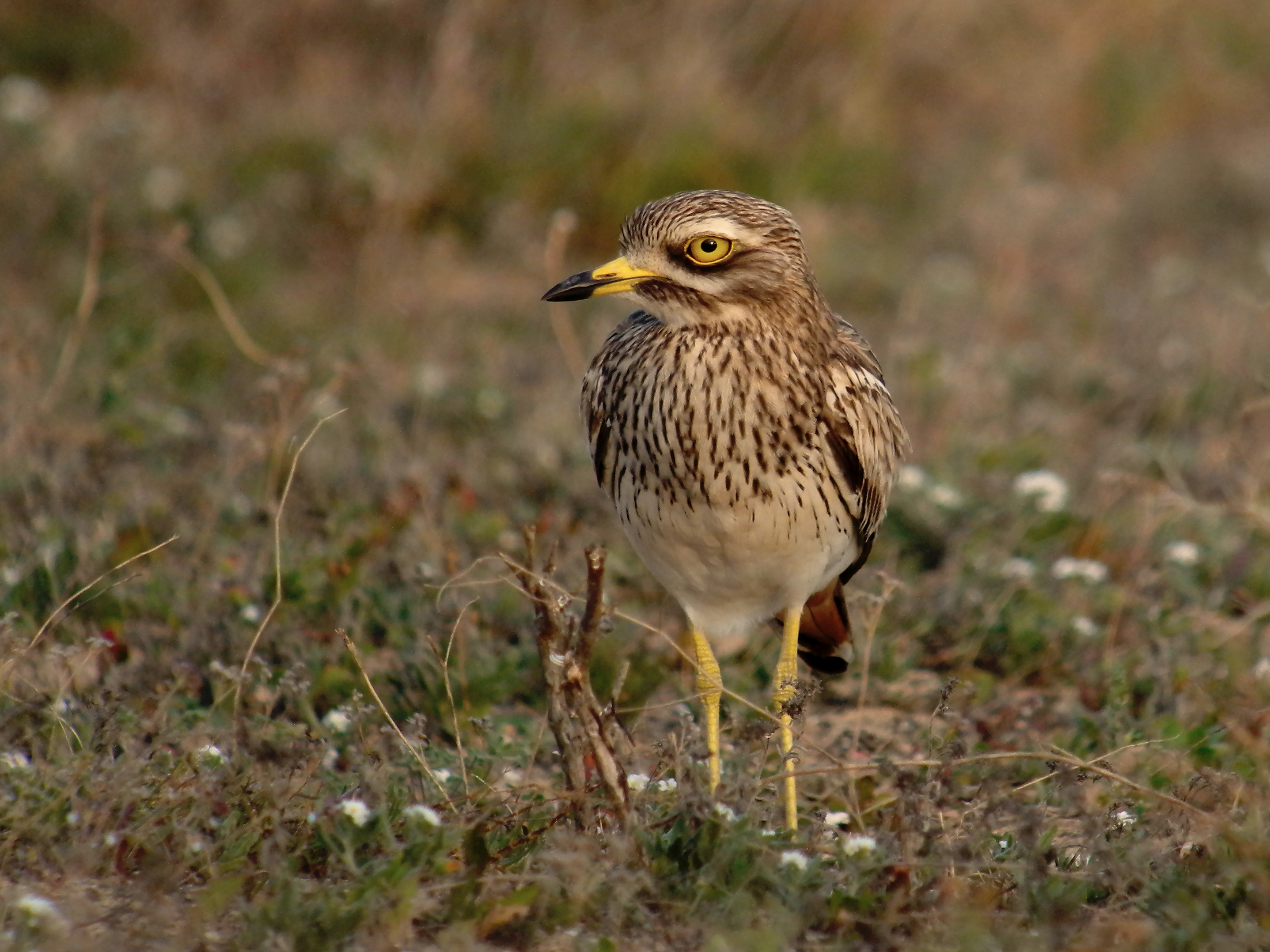 A Eurasian Stone-curlew in Tao, Lanzarote, Canary Islands, Spain.